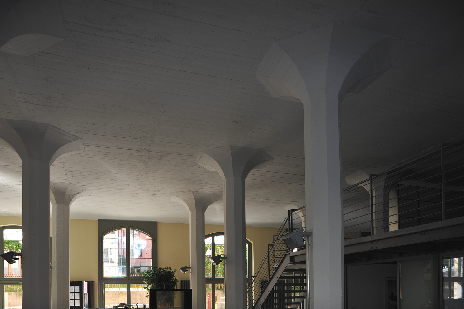 Warehouse Giesshübel, built 1910; Zürich, Switzerland. In this building, Robert Maillart applied the technique of the mushroom slab for the first time. The warehouse was renovated in 2008 for residential and commercial use. Details of the mushroom slab on the ground floor.